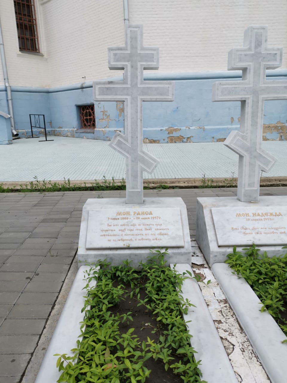 Захоронение матушки в монастыре